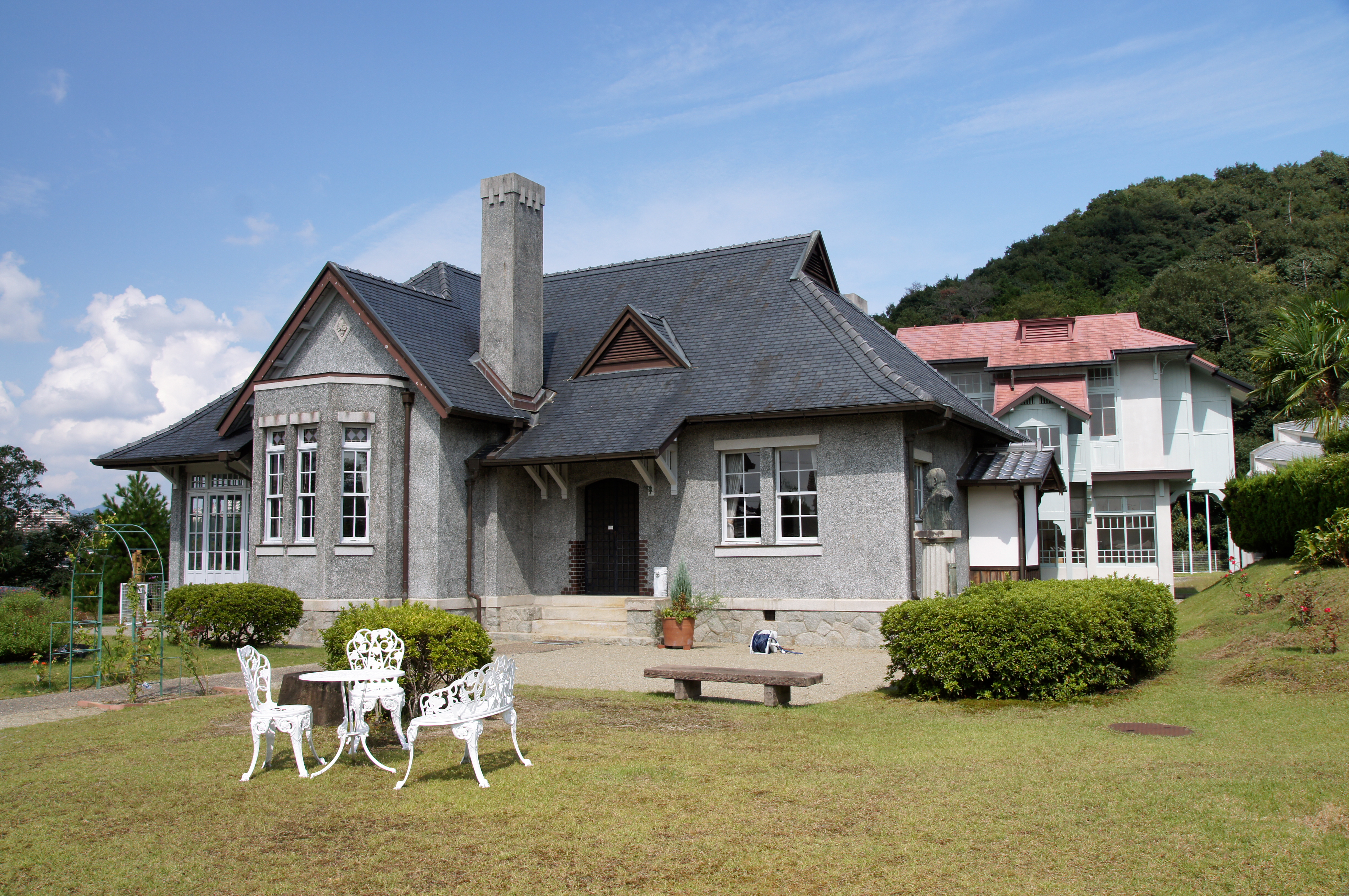 Kyodokan Museum (Folk Museum of Kawanishi) in Kawanishi, Hyogo prefecture, Japan.